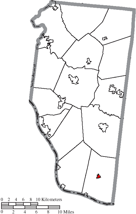 Map of the municipal and township boundaries of Clermont County, Ohio, United States, as of the 2000 census, with the location of the village of Felicity highlighted. Township borders are shown only in unincorporated areas in order to differentiate incorporated and unincorporated areas more clearly.